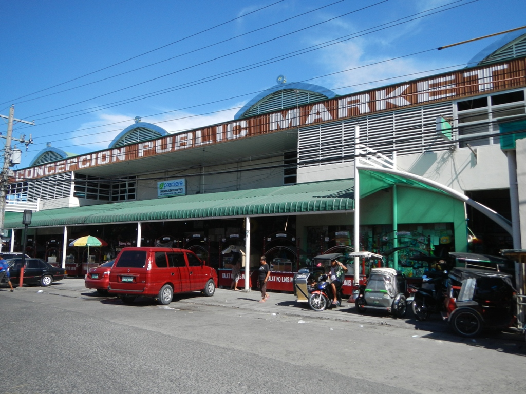 Concepcion, Tarlac Public Market and Transport Terminals in L. Cortez, Concepcion National Road in Barangay San Nicolas (Poblacion), Concepcion, Tarlac.